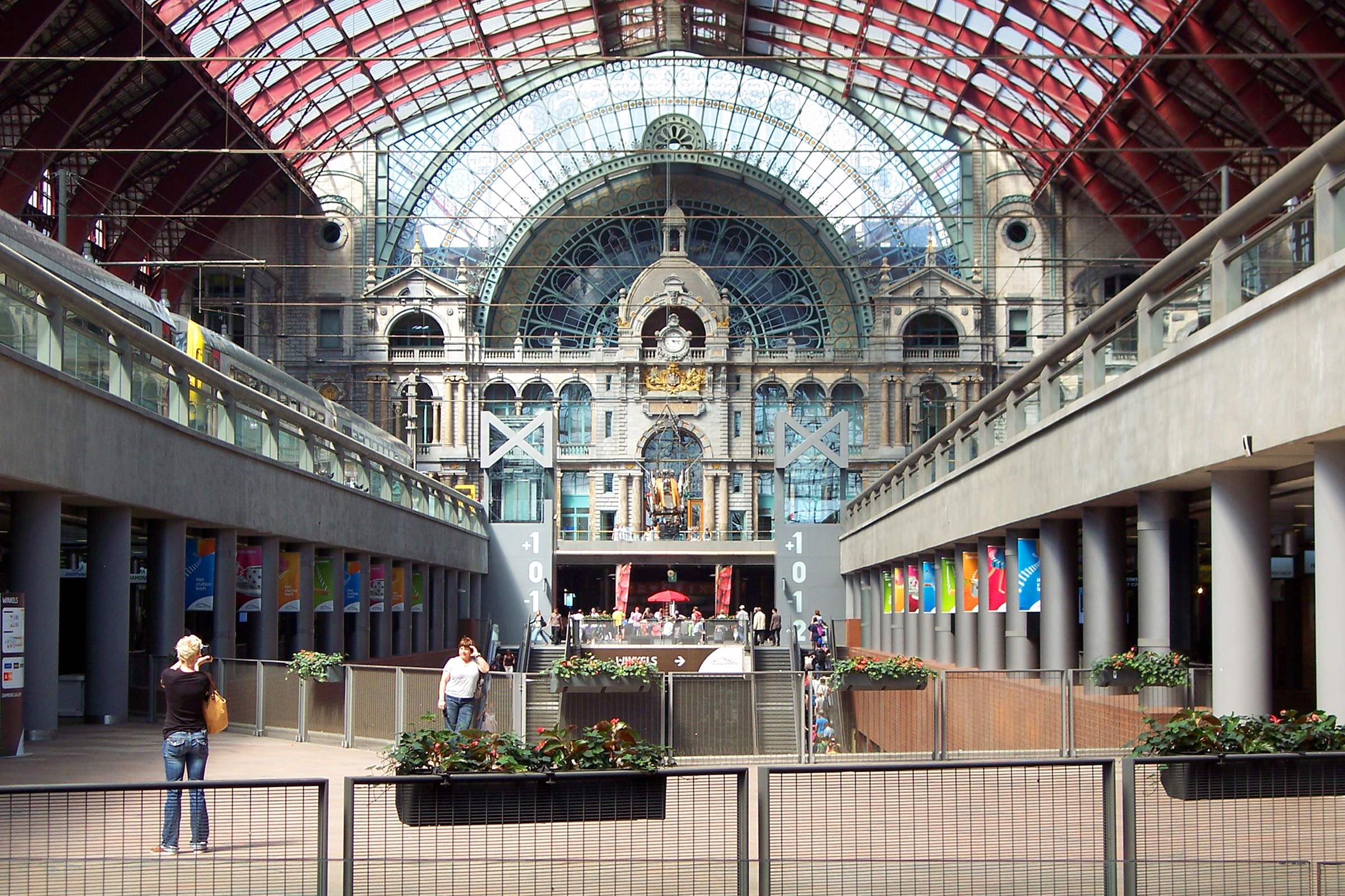 Antwerp Central Station, internal facade of the passenger building (under the train shed)